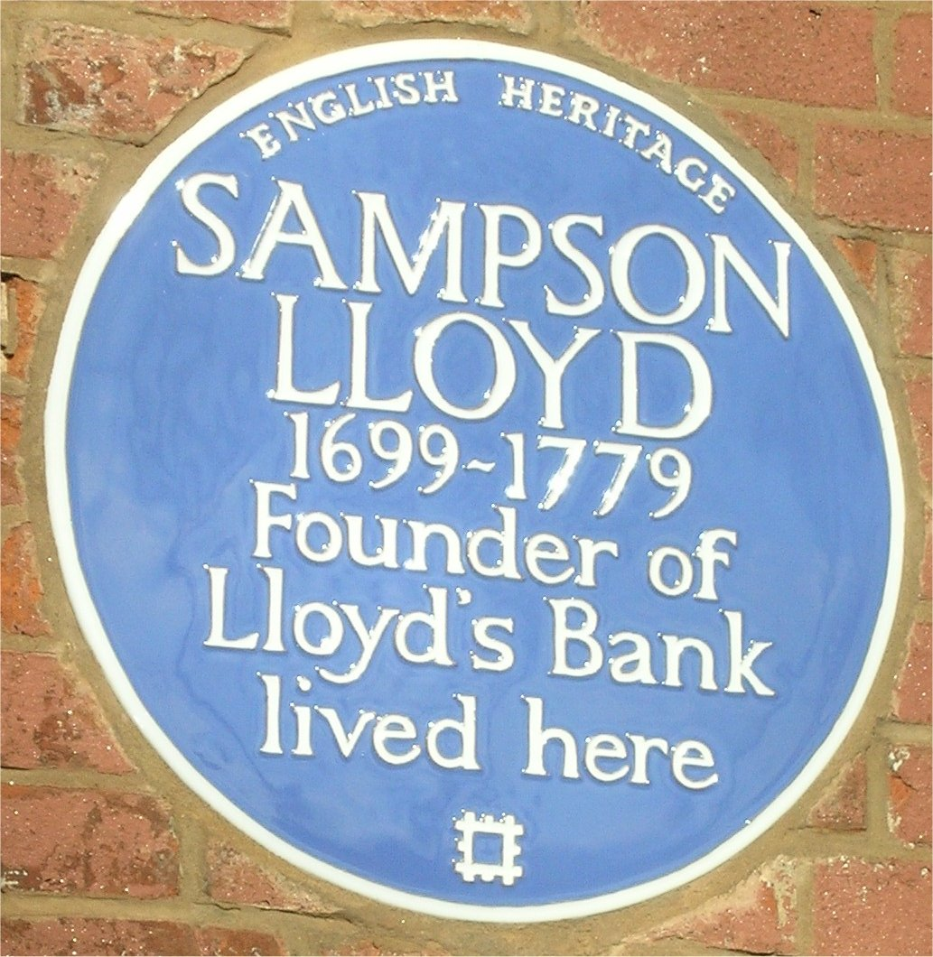 Blue plaque to Sampson II Lloyd (1699-1779), co-founder of Lloyds Bank affixed to external wall of "Farm, Sparkhill", alias "Farm, County Warwick", etc., now known as "Lloyd's Farmhouse, Farm Park, 139 Sampson Road, Birmingham" (listed building text[1]), a grade II* listed building. The historic residence from 1742 to 1912 of the Birmingham branch of the Lloyd family of Dolobran, Montgomeryshire, Quakers, ironmasters and founders of Lloyd's Bank. Built by Sampson II Lloyd (1699-1779), who with his son Sampson III Lloyd (1728-1807) founded Lloyd's Bank. It is one of the most important of the rare surviving Georgian buildings in the city of Birmingham[1]